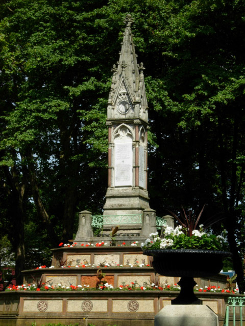 The Burdett-Coutts Memorial Sundial Designed by George Highton of Brixton and unveiled in 1879, this grade II listed sundial stands in St Pancras Gardens close to St Pancras Old Church. Baroness Burdett-Coutts was a Victorian philanthropist who worked to eliminate London's slums.